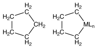 Structure of a carbocycle - Cyclopentane, structure of a metallacycle – Metallacyclopentene